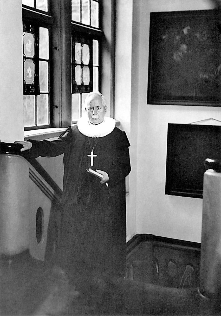 Johannes Evers (1859-1945), Senior of the Lutheran church of Lübeck